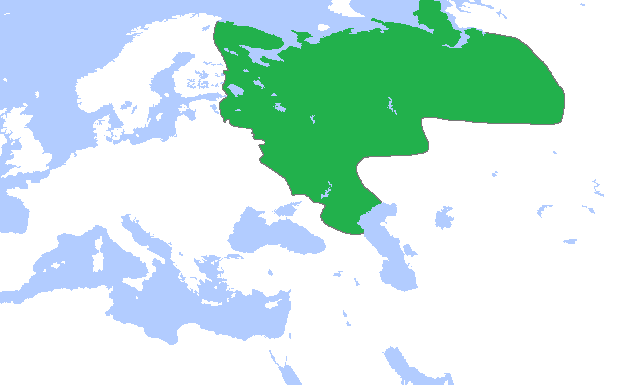 Locator map of Russia (small), c. 1600. (Partially based on Atlas of World History (2007) - The World 1500-1600, map)